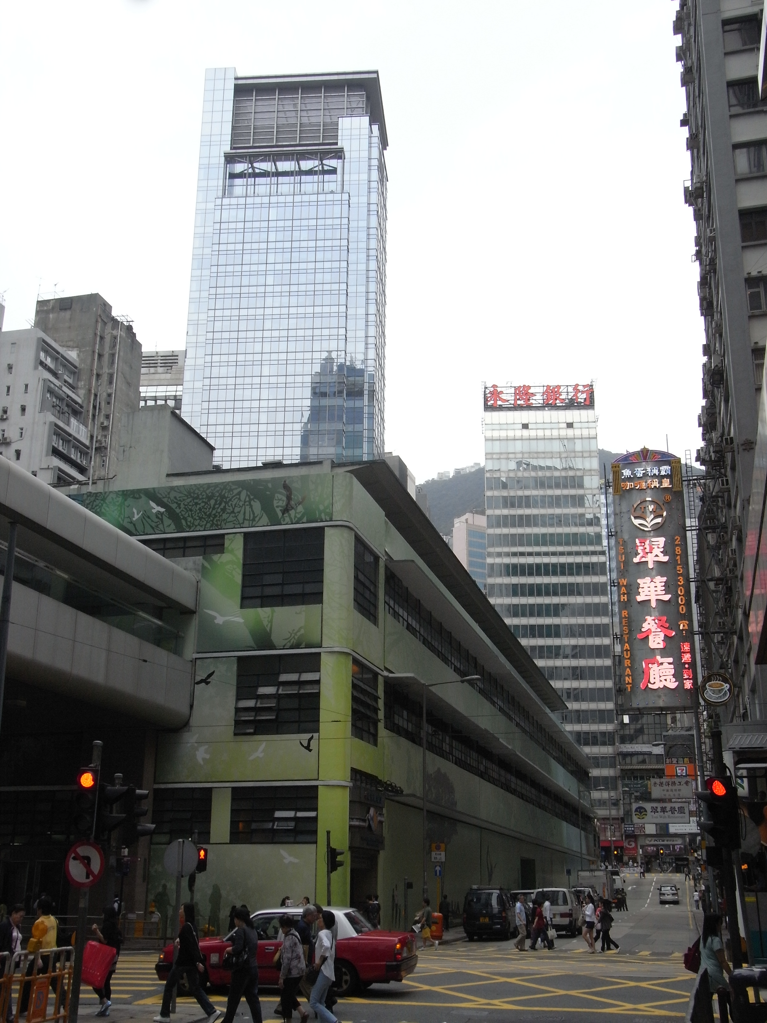 中環 100QRC 中環街市 租庇利街